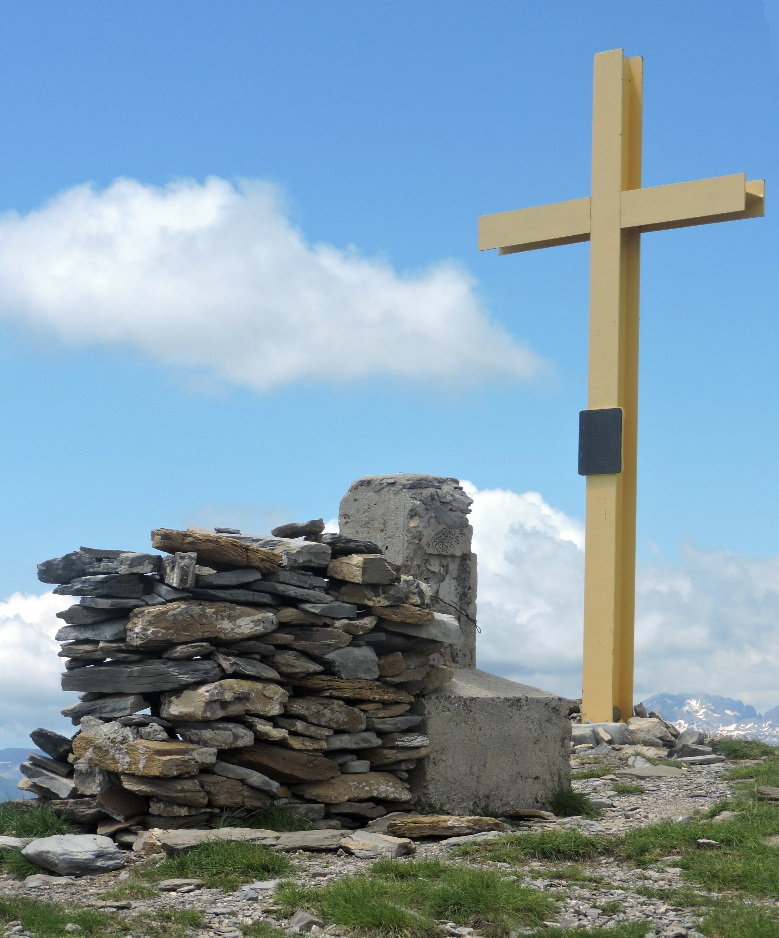 Mount Bertrand (Ligurian Alps) : summit cross and cairn